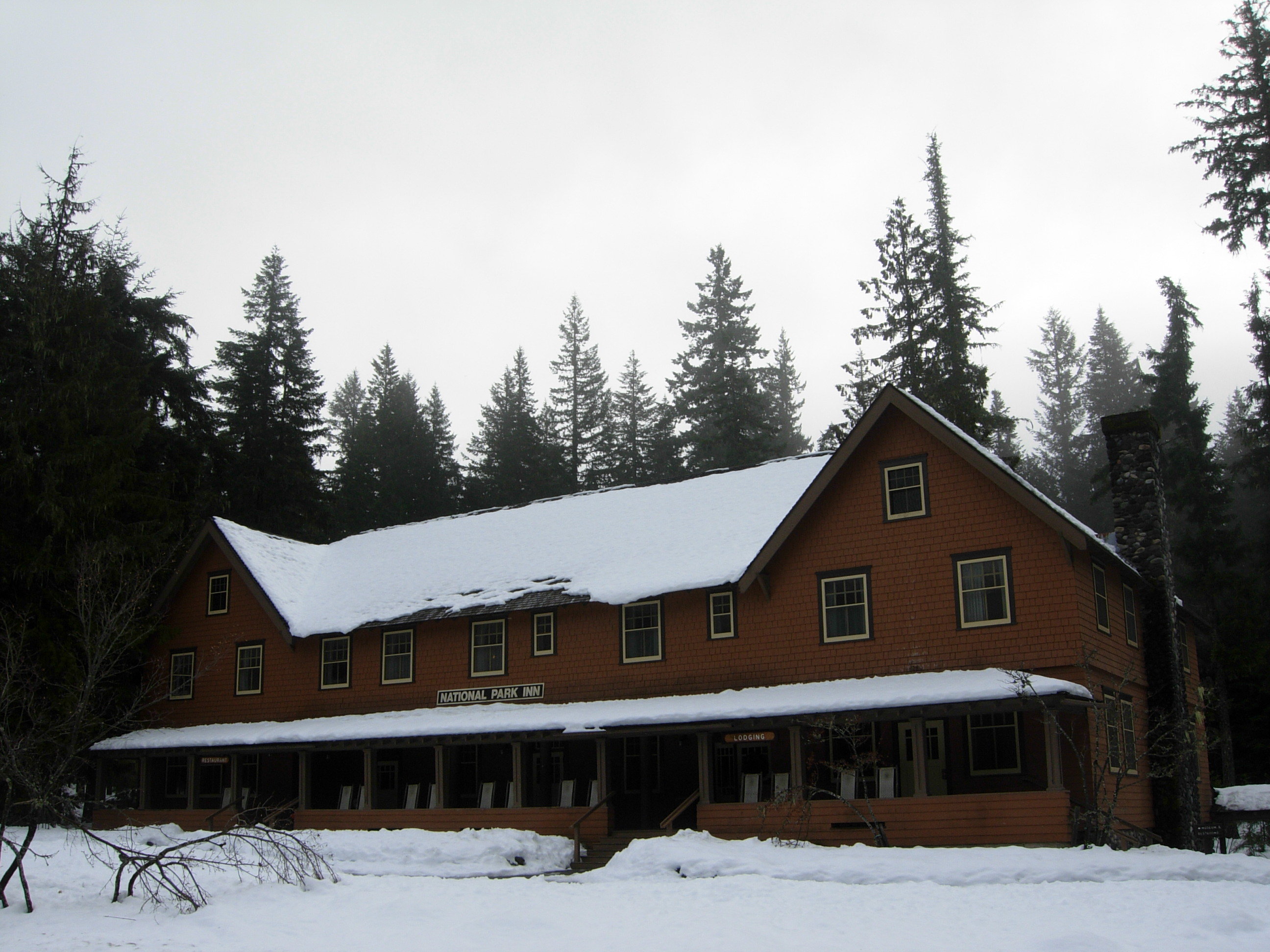 The National Park Inn at Longmire, Washington. The Longmire Historic District is listed on the National Register of Historic Places.